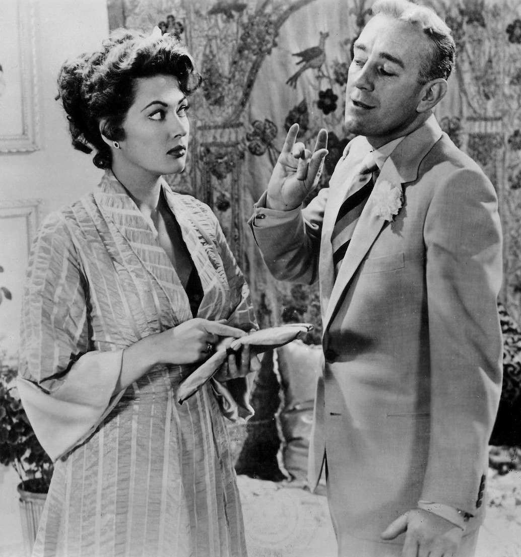 Photograph of actress Yvonne De Carlo and actor Alec Guinness in the comedy The Captain's Paradise (1953).